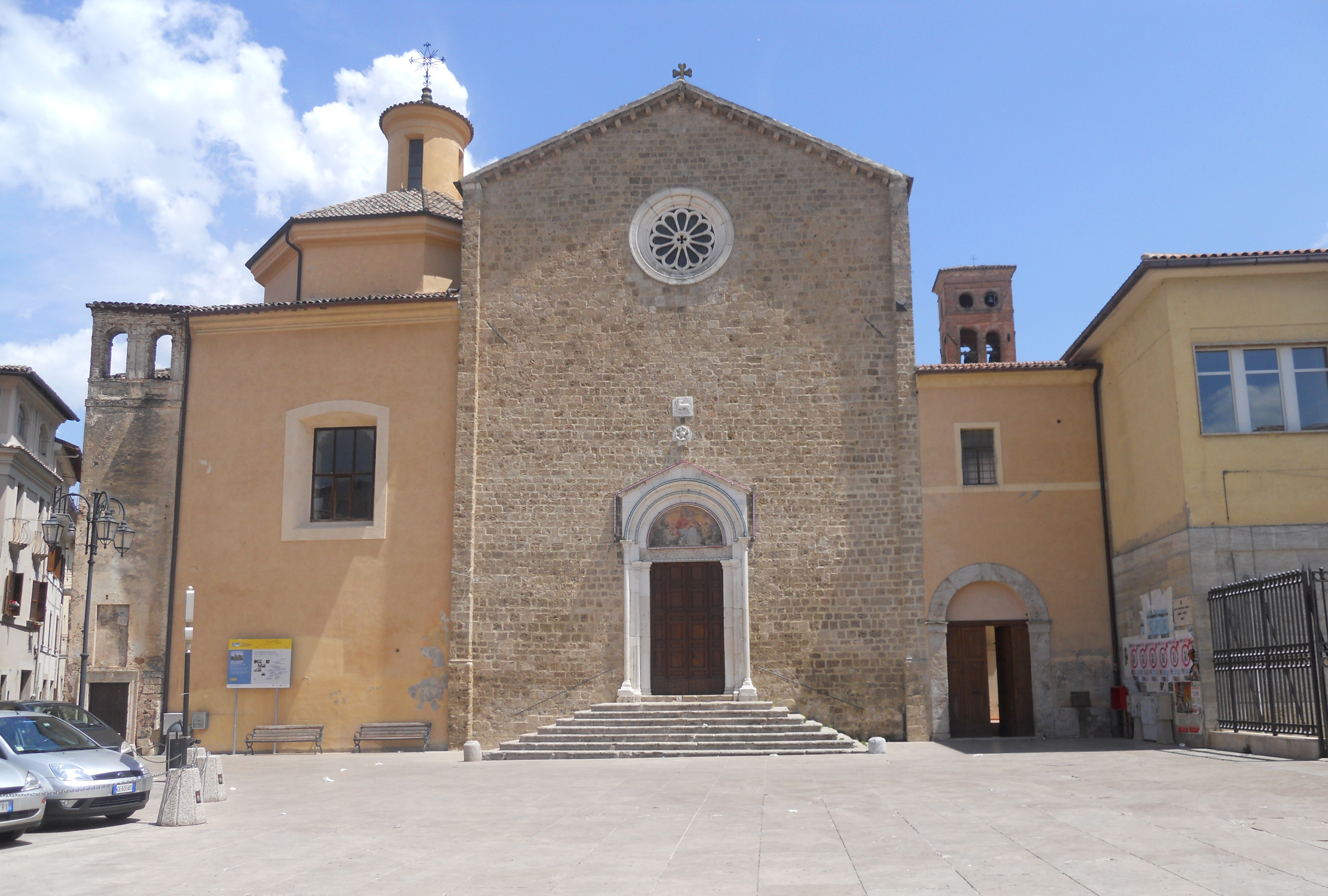 Exterior of St. Francis church - Rieti, Italy